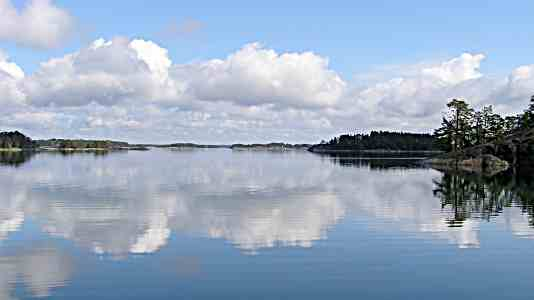 Hitis at Dragsfjärd, Finland.